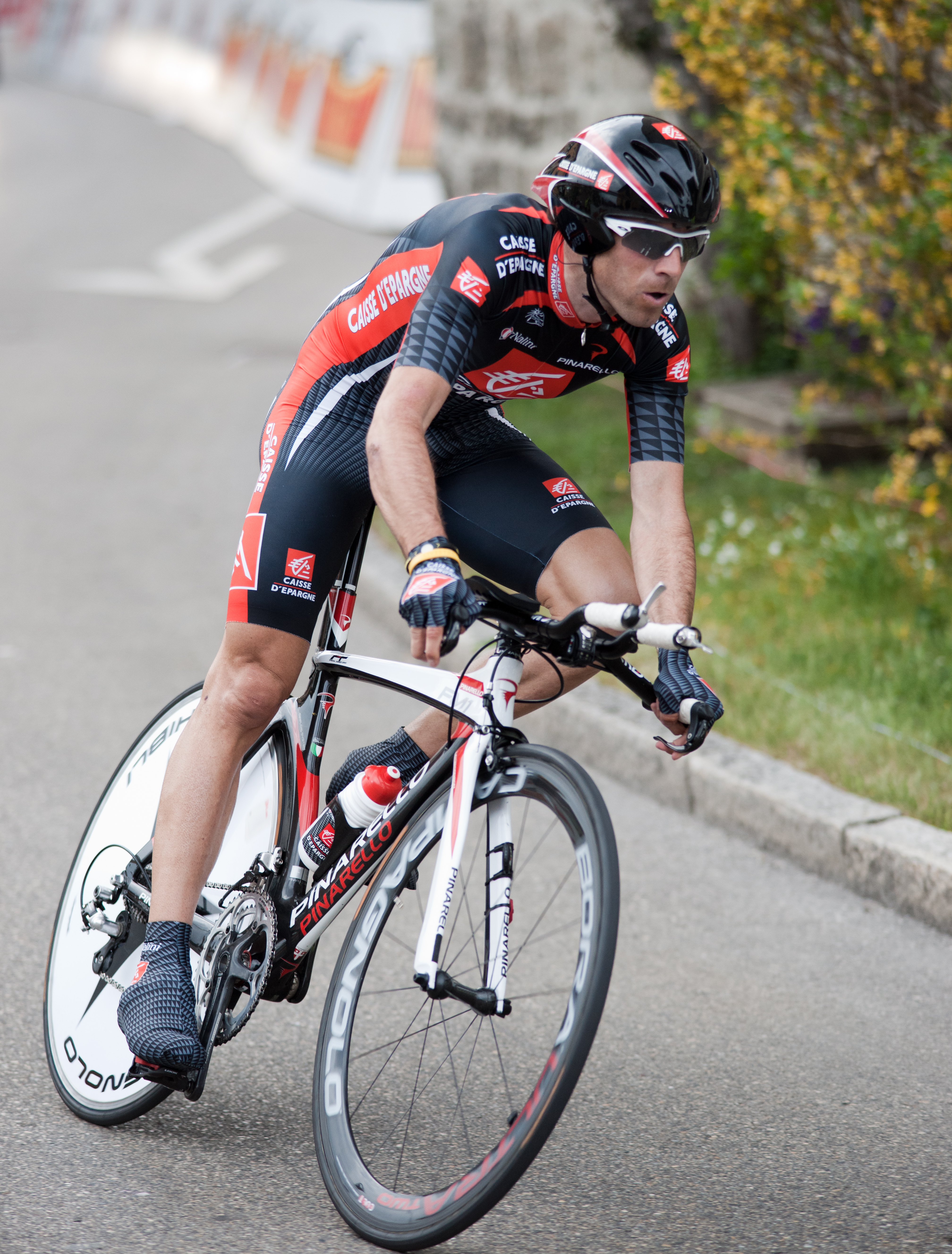 Alejandro Valverde during the 3rs stage of the Tour de Romandie 2010.